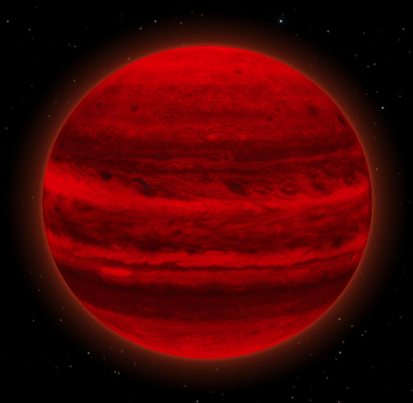 An artist's impression of Planet X.